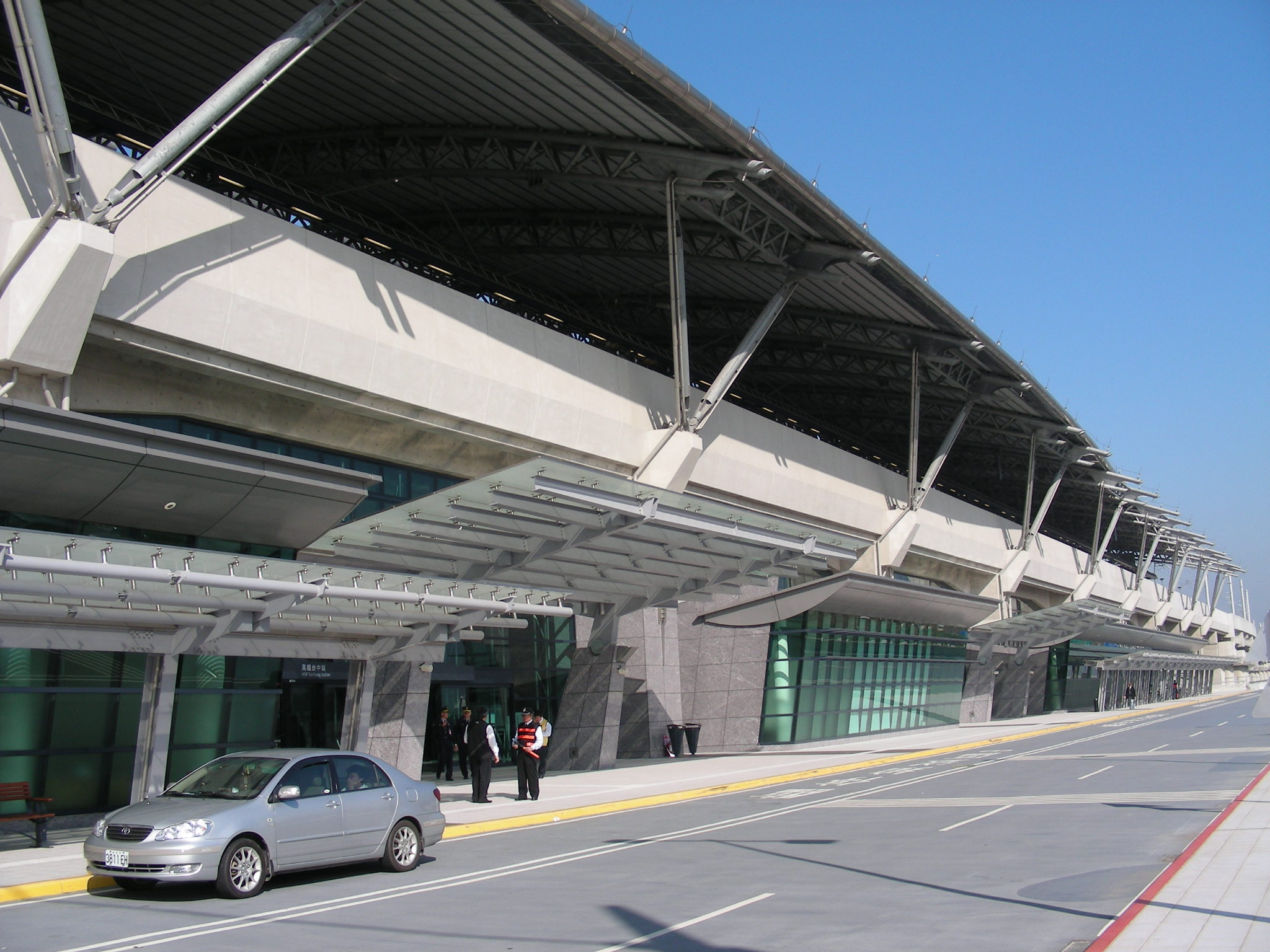 Taiwan HSR(High Speed Rail) Taichung Station Front Gate (from left side)